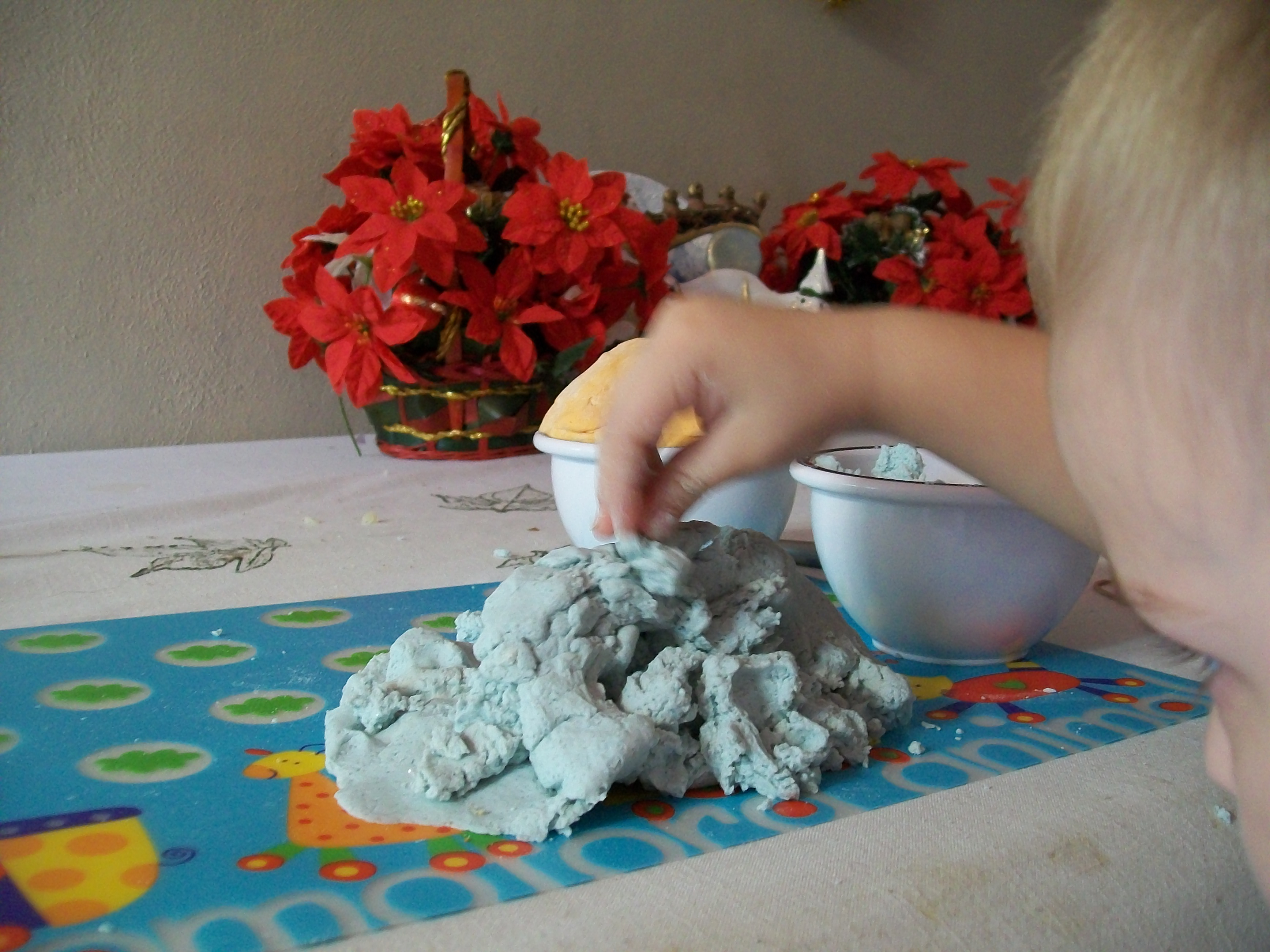 Bowl of homemade play dough with colorant added.